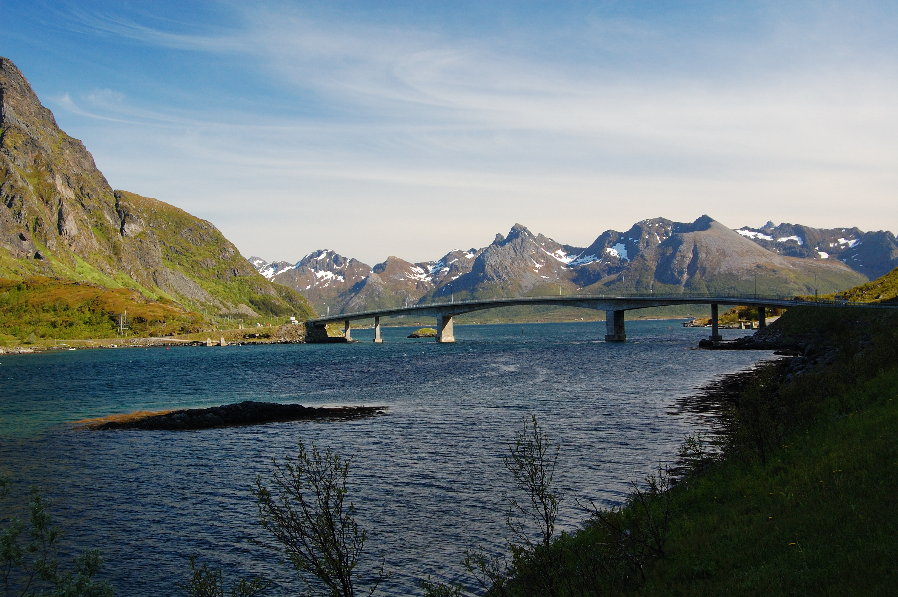 The Sundklakkstraumen Bridge connecting Gimsøy and Vestvågøya in Nordland county, Norway.